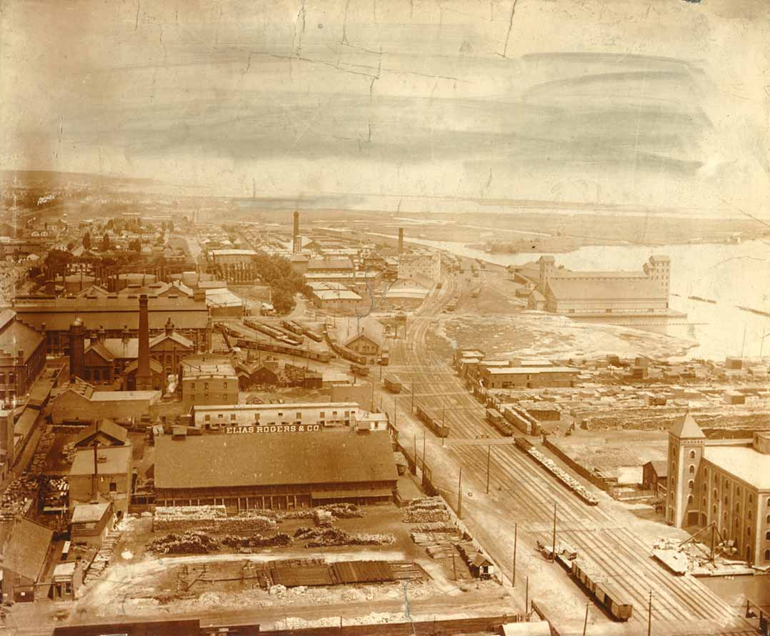 The Esplanade, Toronto, Canada, showing the tracks of the Grand Trunk Railway along the waterfront, as well as by a number of industrial buildings that had been constructed to be close to the rail lines.